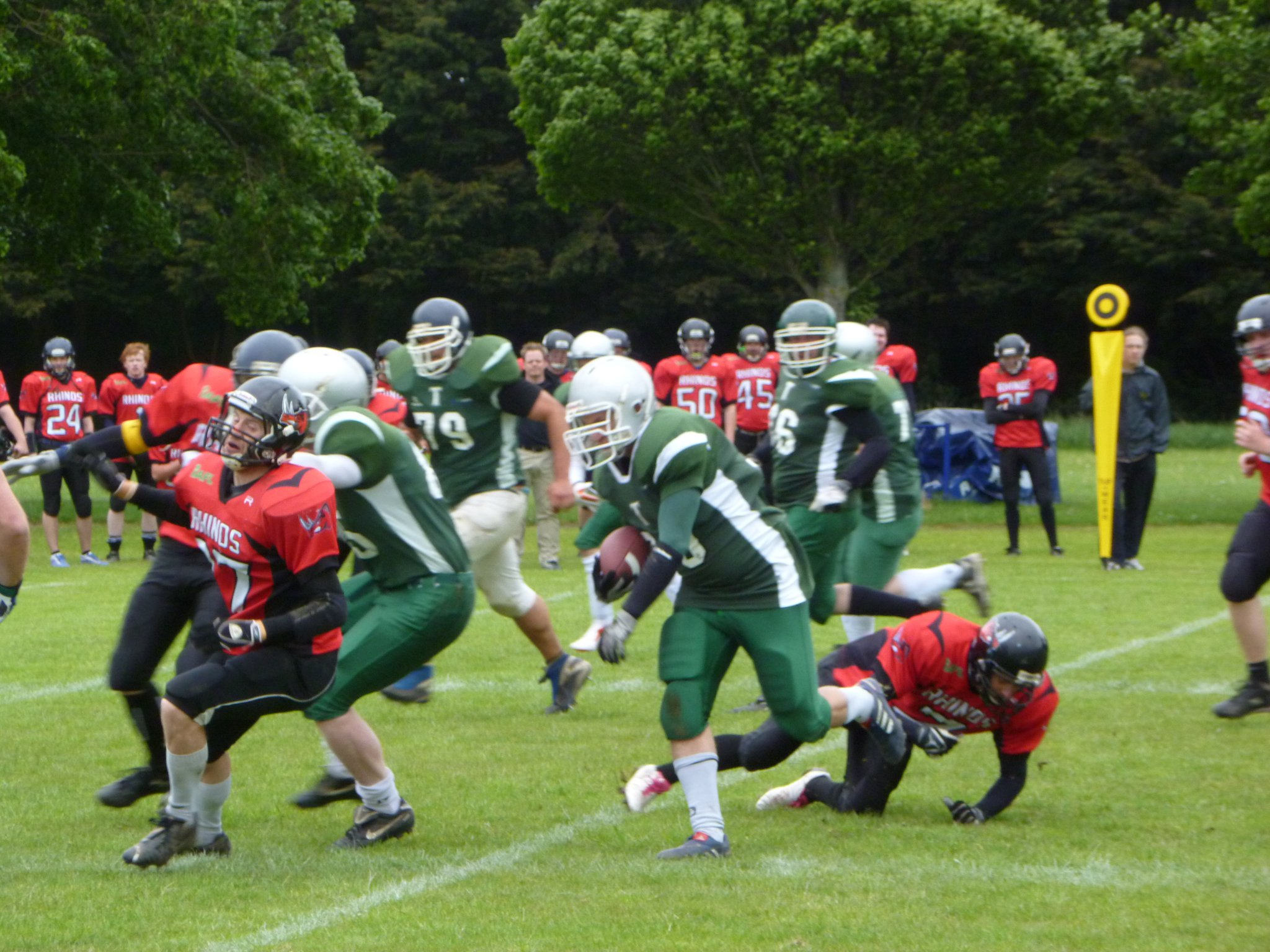 Belfast Trojans Vs Dublin Rhinos 2011